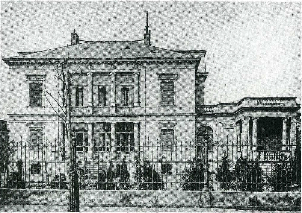 Dresden Haus Wiener Straße 14 (neue Nr. 11). Aufnahme um 1875 (zerstört)